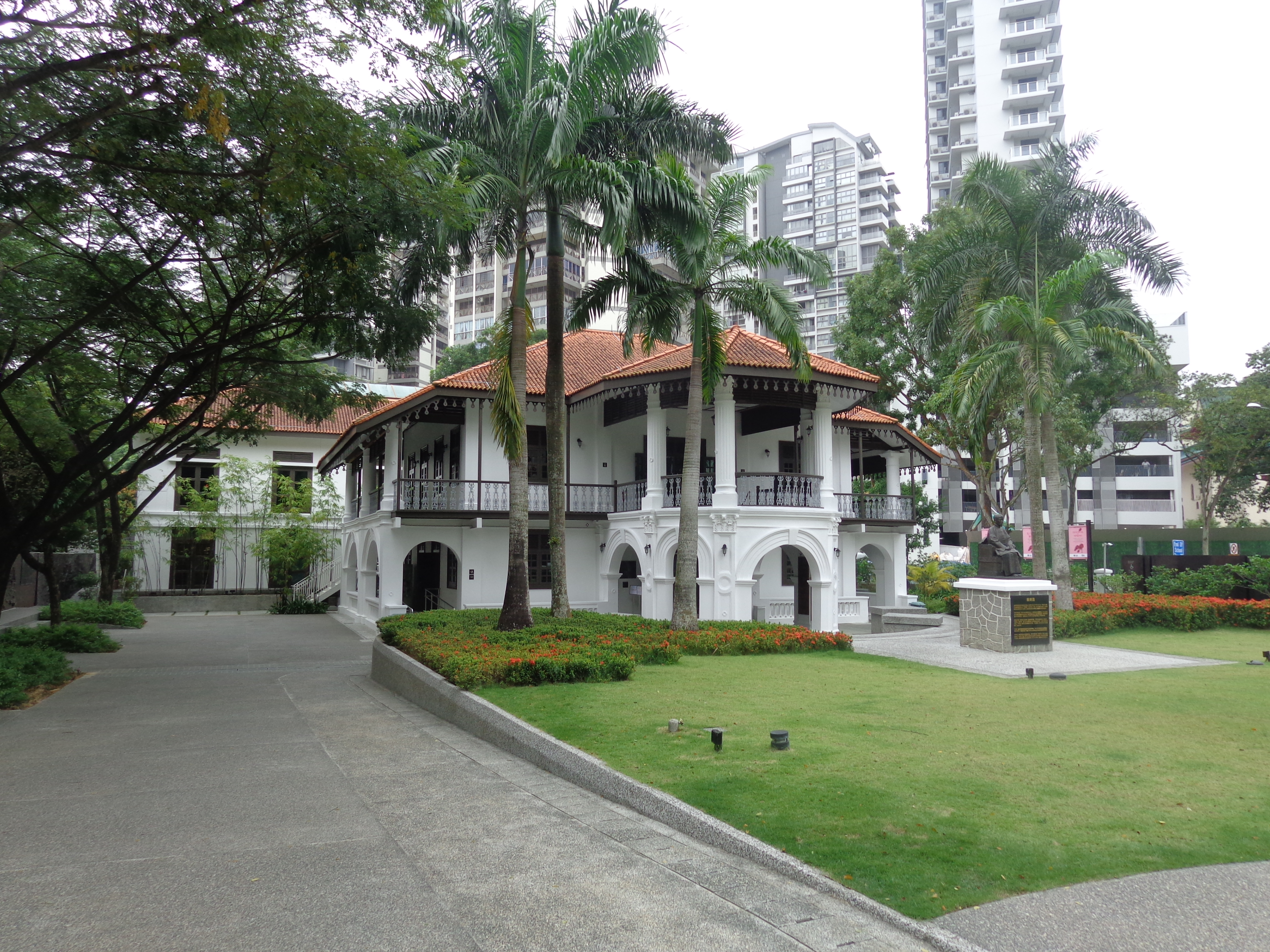 Sun Yat Sen House in Singapore